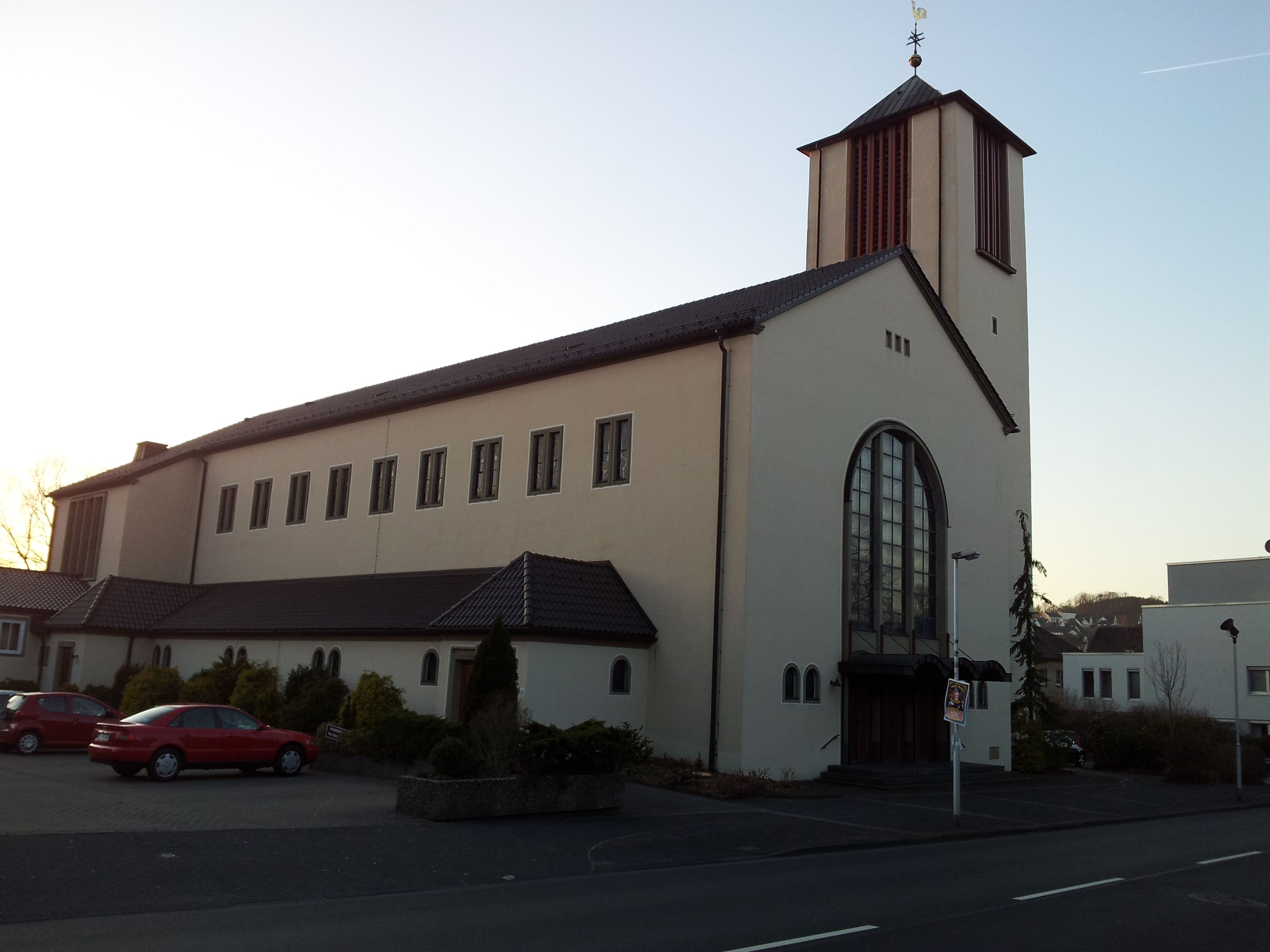 St. Maria Church in Olpe